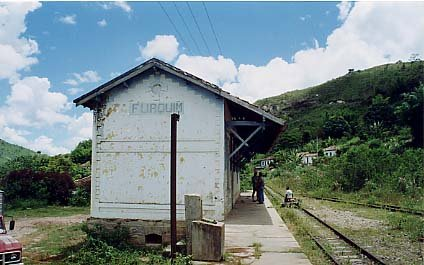 Churches in the district of Furquim, Minas Gerais, Brazil.